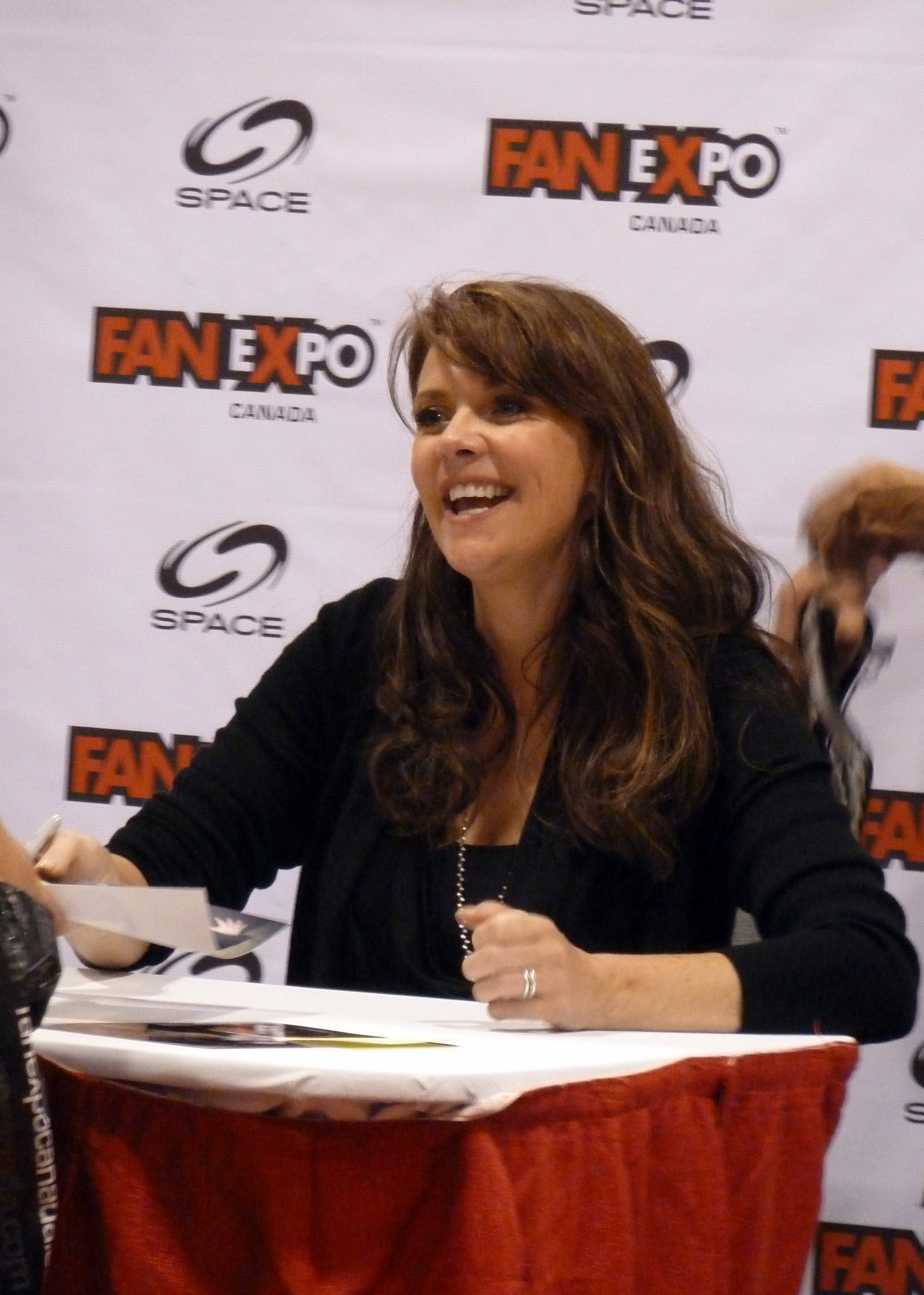 Fan Expo Canada in Toronto in 2012.